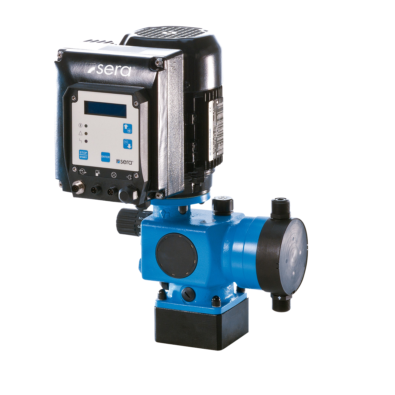 sera Metering pump C409.2 controlable, for use in all industrial processes and food and beverage industry.